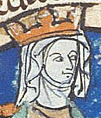 Matilda of Scotland